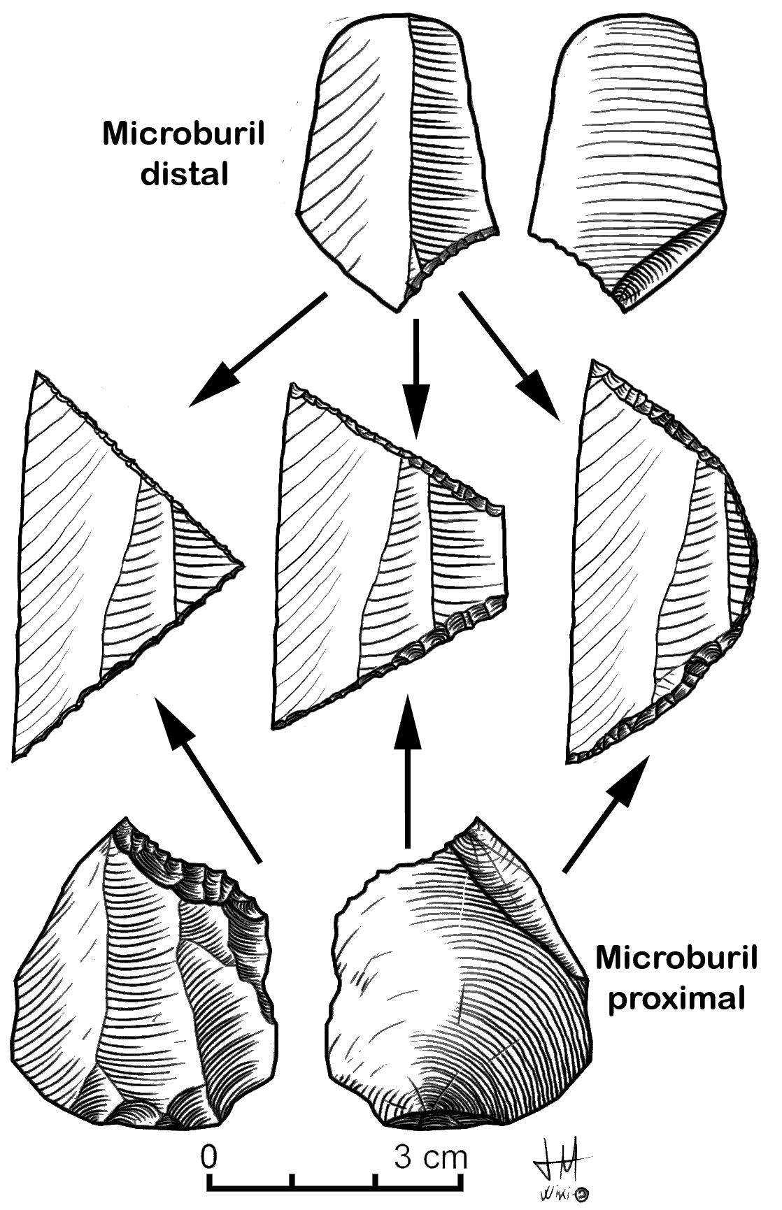 Microburin blow: Usin this techique o several types of geometrical microliths; triangle, trapezium and segment. And its differences with the proximal and distal microburins